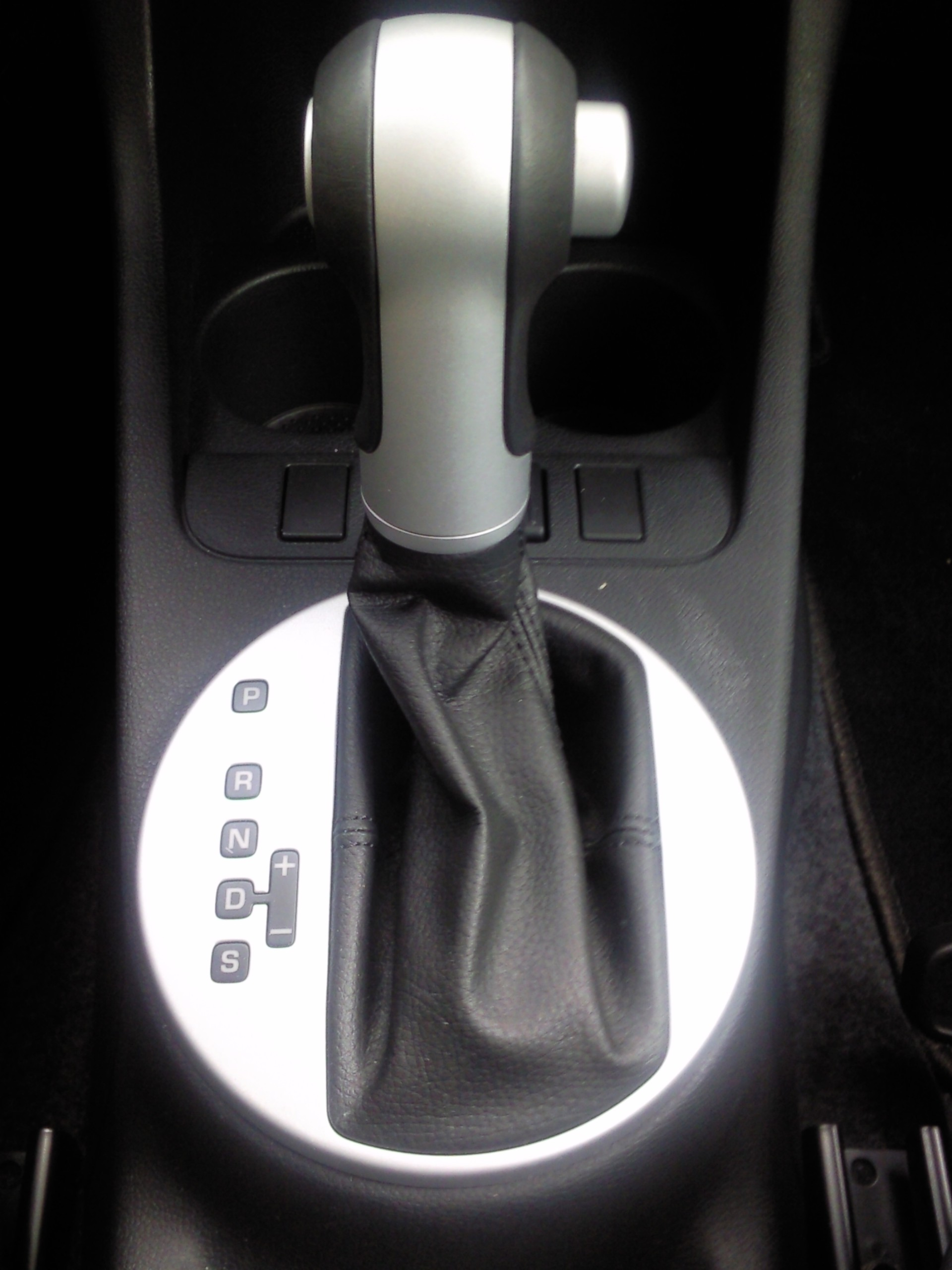 The gear lever. This is an automatic if you hadn't already guessed!